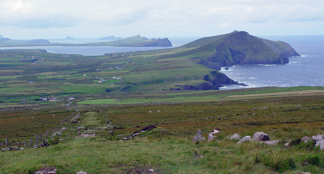 The Dingle Way The Dingle Way is the broad path that can be seen running downhill directly in front of the photographer, and towards Smerwick Harbour. On the right is Ballydavid Head (4 km distant).